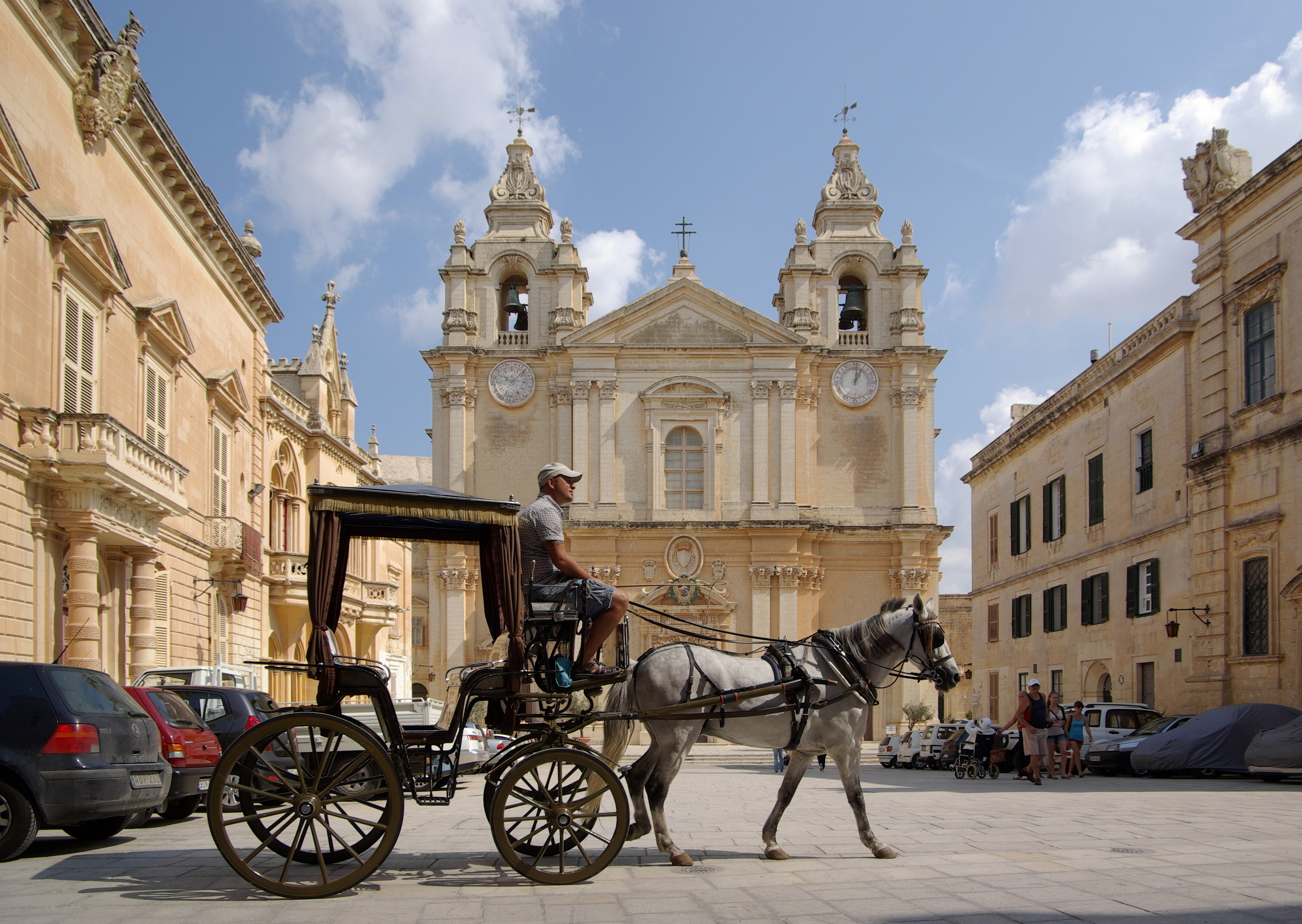 Malta, Mdina, Kathedrale St. Paul